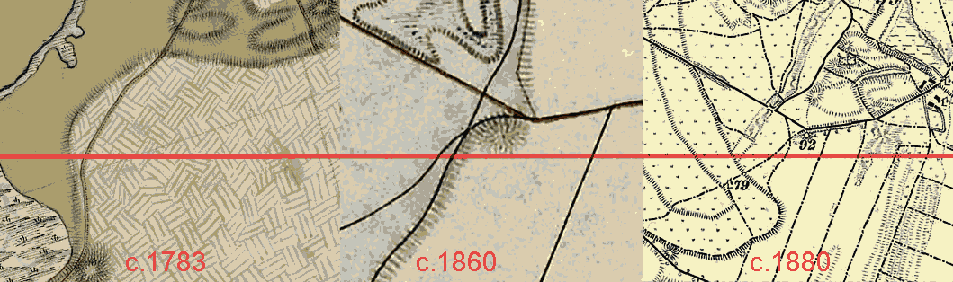 Kurgan Trivunova humka near Novi Kneževac (Vojvodina, Serbia) shown on the 1st, 2nd and 3rd Military Mapping Survey of Austria-Hungary – maps accessed through